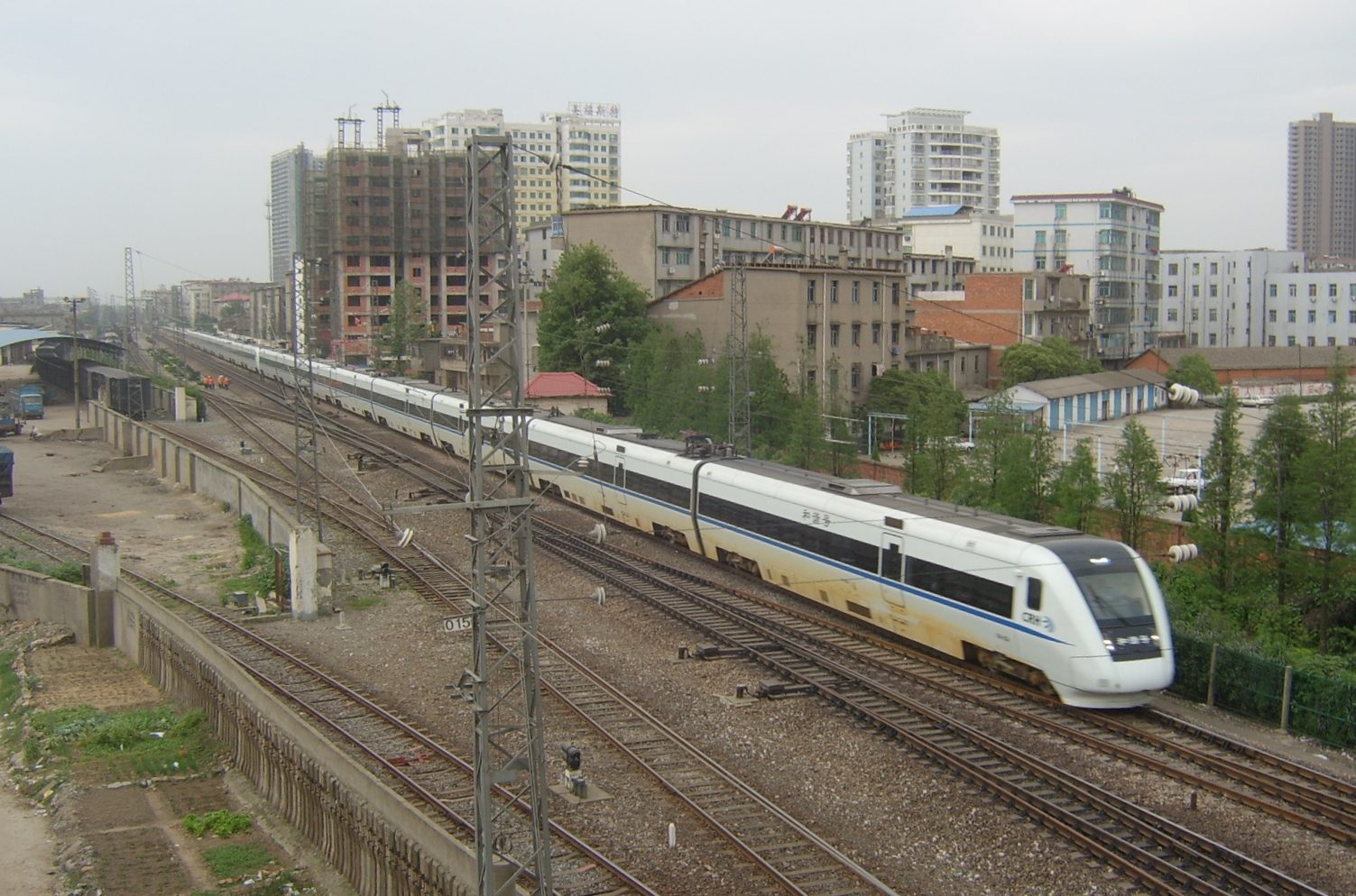 a bullet train passes Lian Tang Railway Station